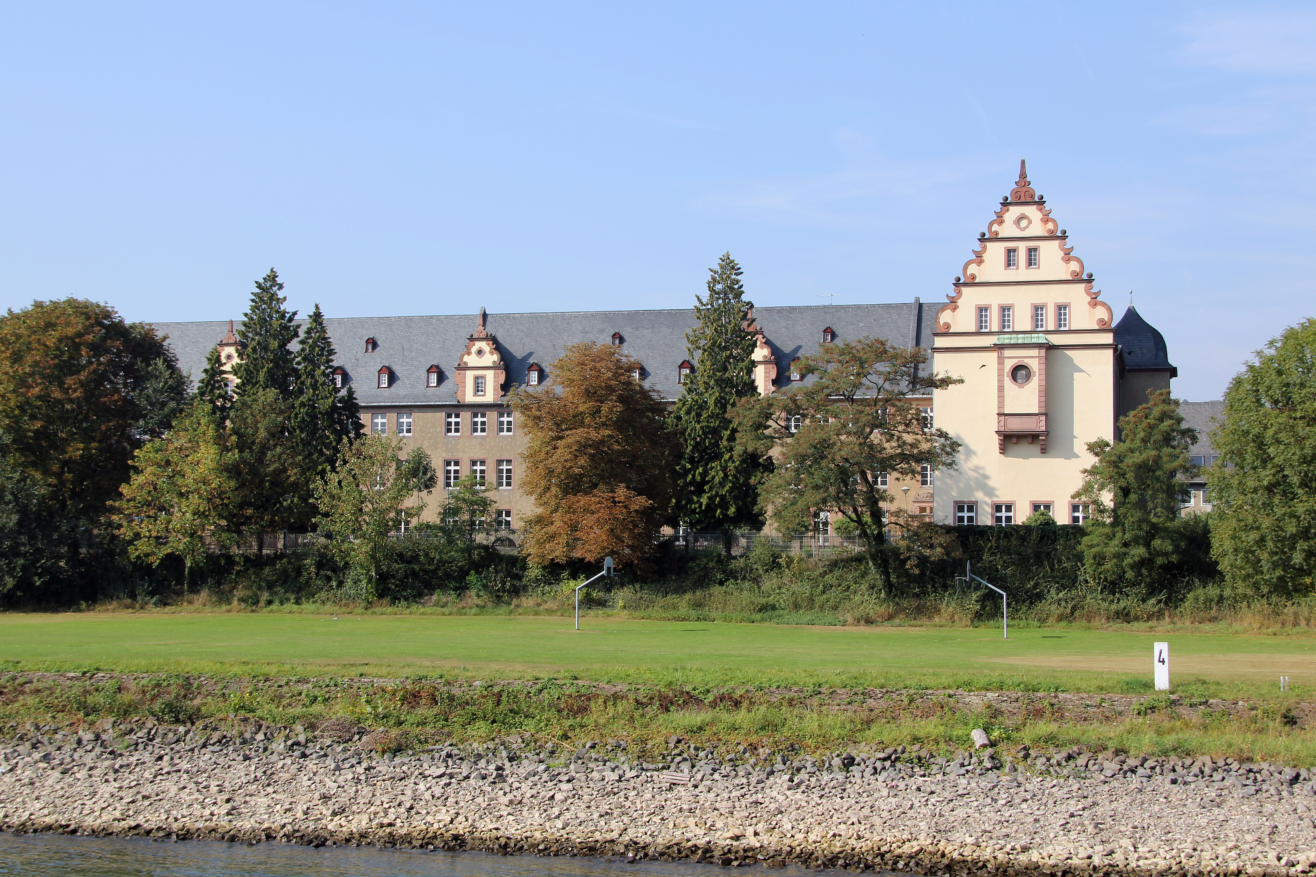 Former prussian teachers seminar in Koblenz